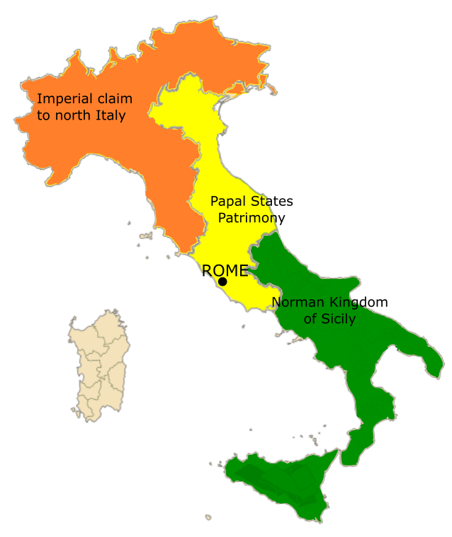 Map of 12th century Italy showing the Norman, Imperial and Papal lands.